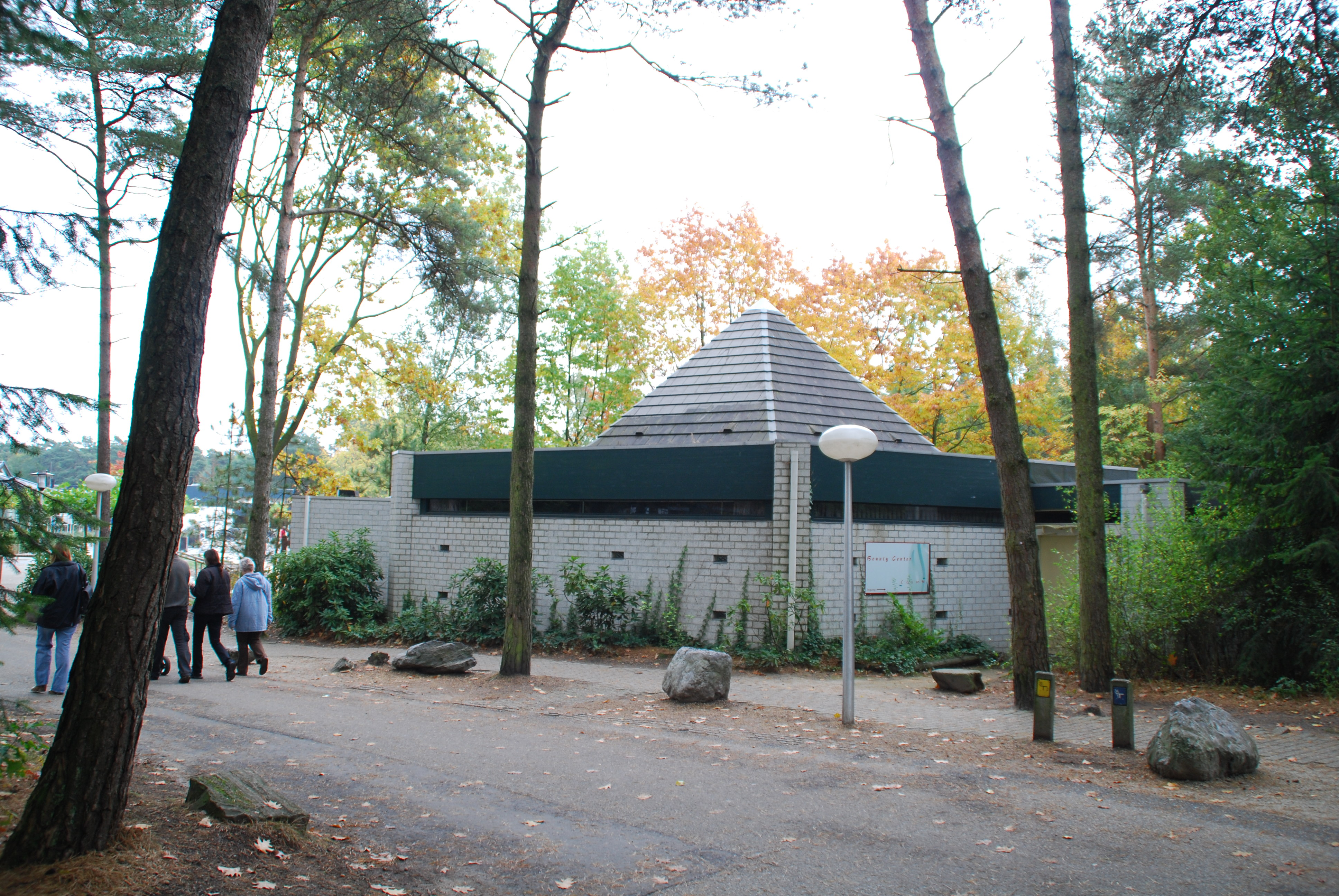 Former church at the Center Parcs holiday resort "Het Vennenbos" in Hapert, the Netherlands. Currently (2009) in use as a beauty center.